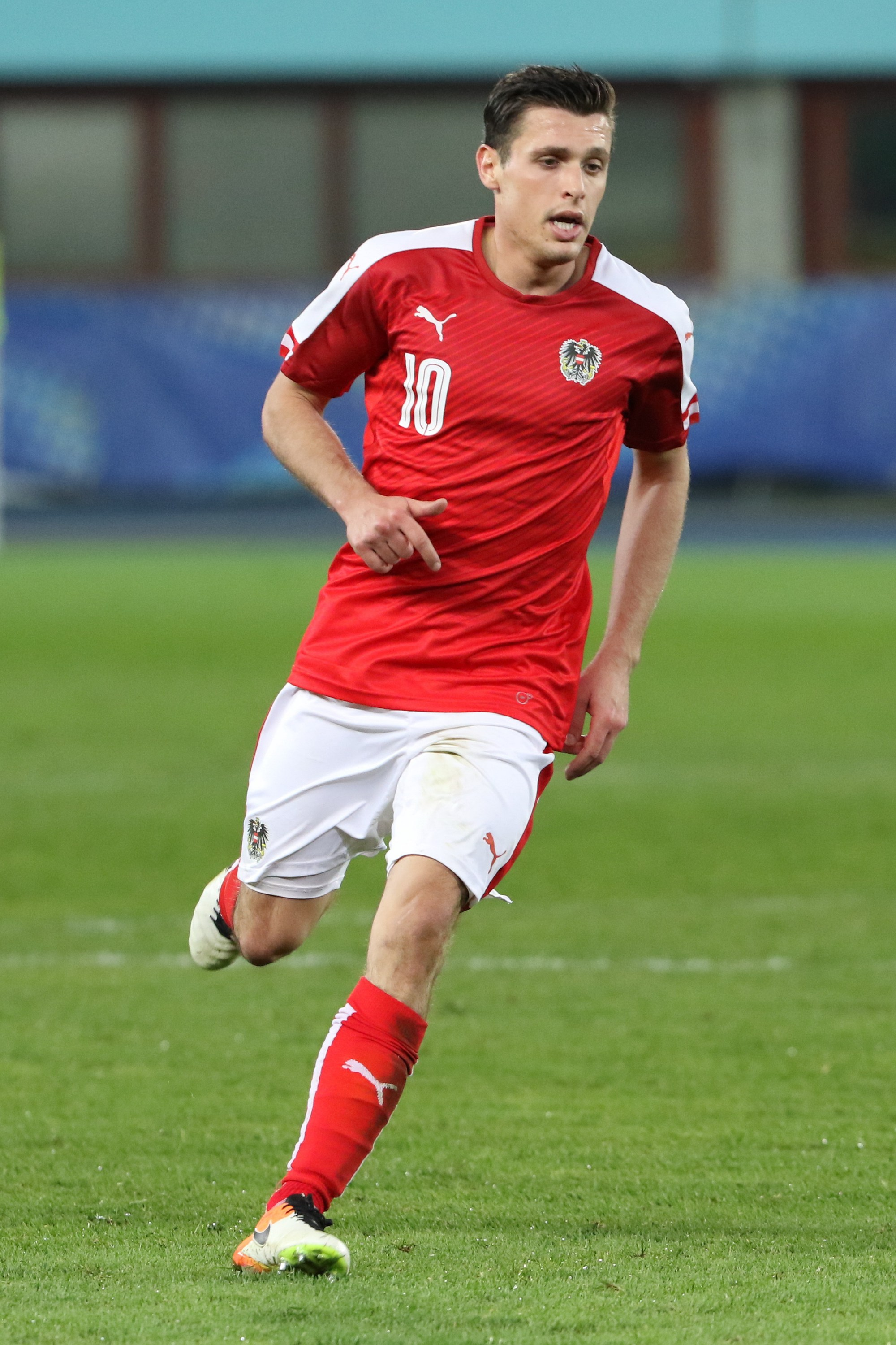 Friendly match – Austria (red shirts) vs. Turkey (blue shirts) 1–2 (1–1) on 2016-03-29 in Ernst-Happel-Stadion, Vienna – The photo shows Zlatko Junuzović (Werder Bremen).